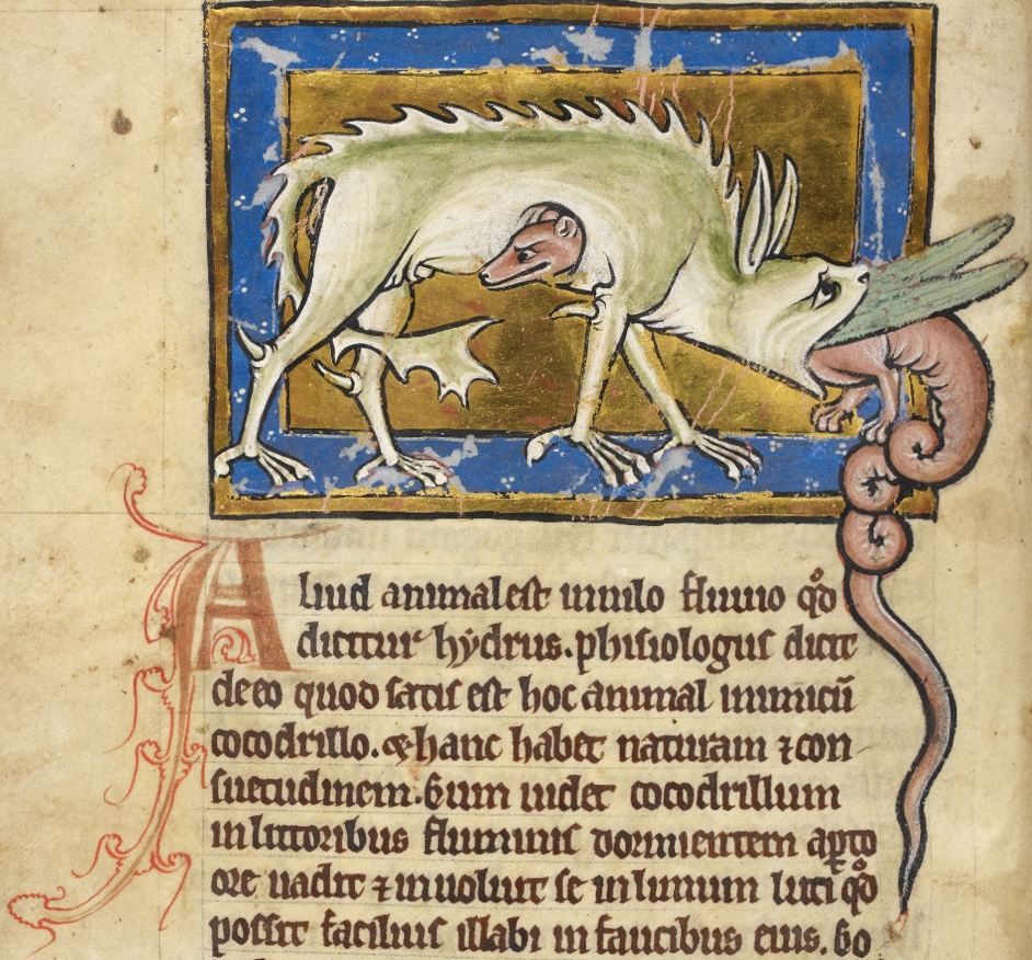 Hydrus- Bestiary, Royal MS 12 C XIX; 1200-1210